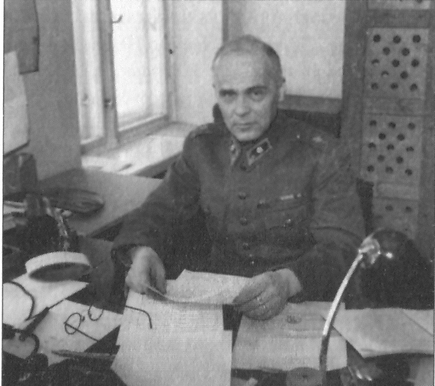 Major Pekka Jänhiä (formerly Travnikoff, Bogdanoff), Finnish intelligence officer from 1920s to 1940s.